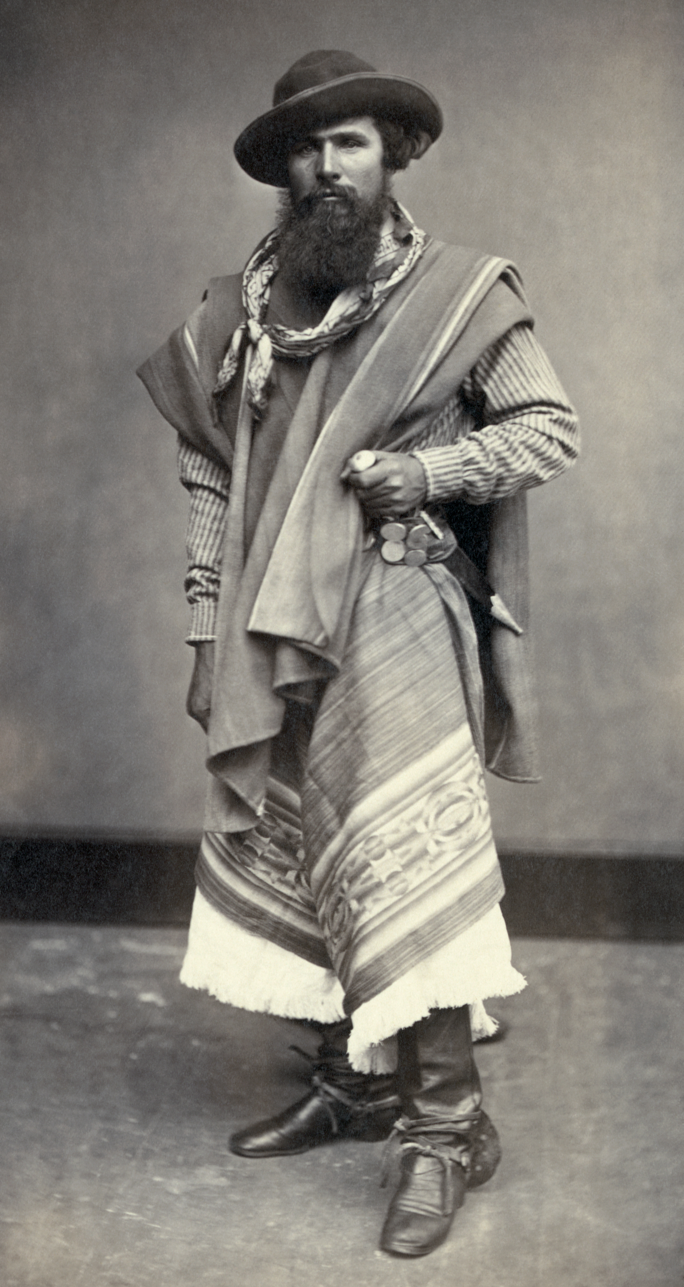 "Gaucho of the Argentine Republic" 1 photographic print: albumen. Restored version. Cropped, artifacts and scratches removed. Some reconstruction of damaged areas, particularly in subject's attire. Histogram adjusted, colors balanced, and partial desaturation.